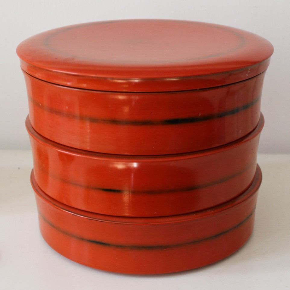 Laquerware type Negoro (black parts on red)